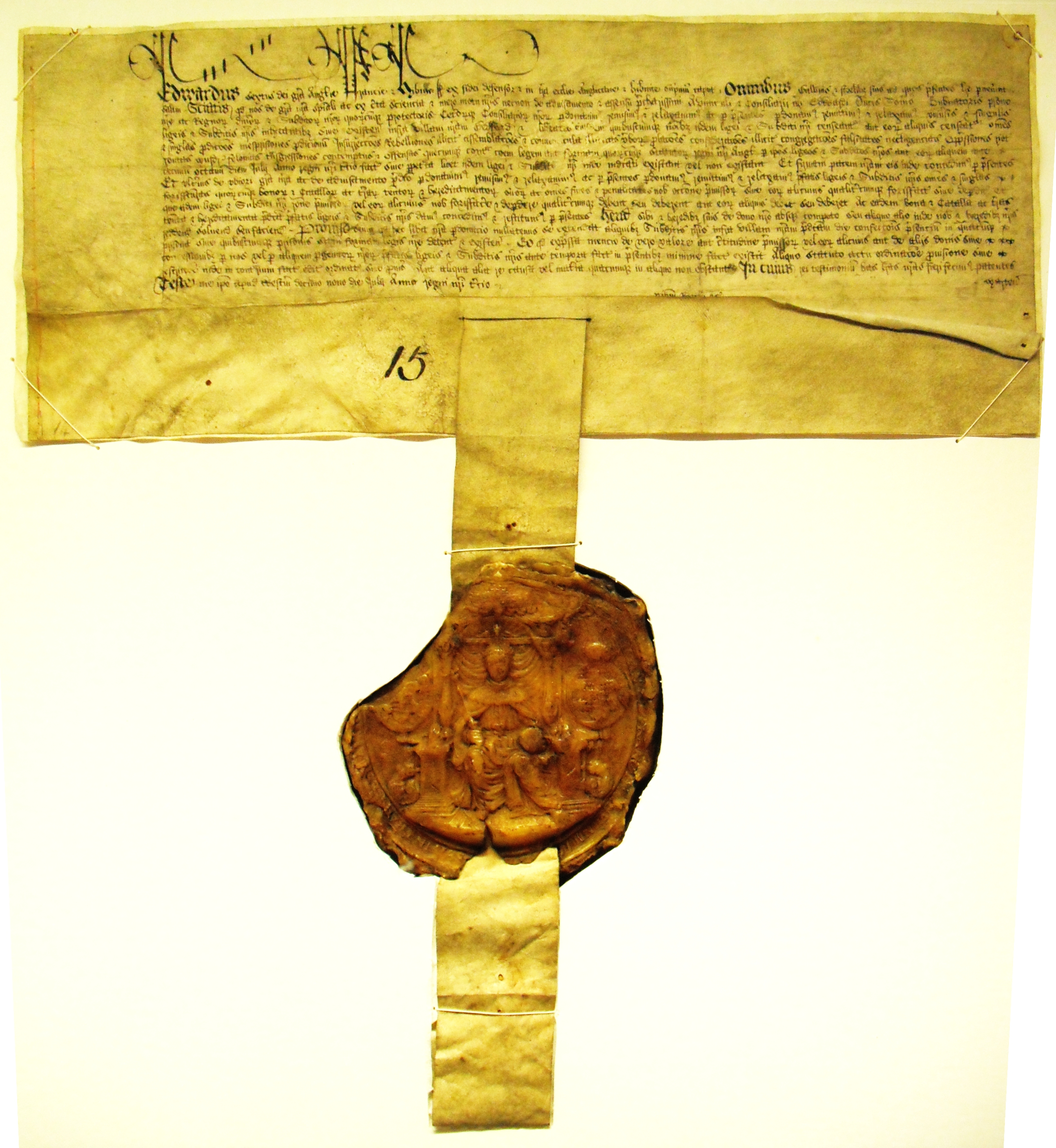 Royal charter of King Edward VI, granting rights to the burgesses of Bedford. Dated 19 July 1549. On display in the Higgins museum and gallery, Bedford.